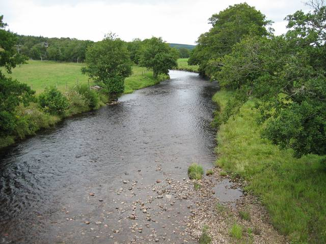 River Nairn at Inverarnie. Taken from the B861 road bridge.